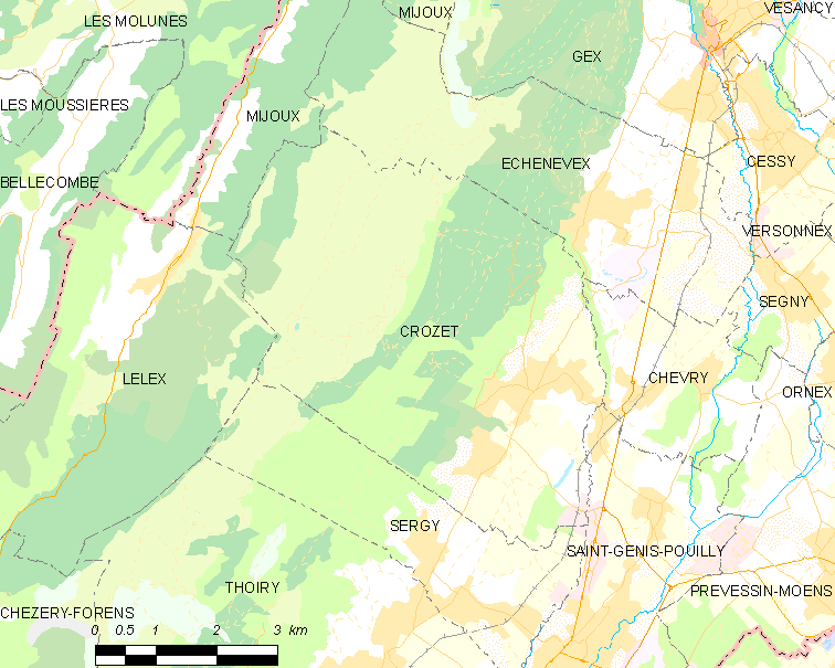 Map of French commune: Crozet Map commune FR insee code 01135.png